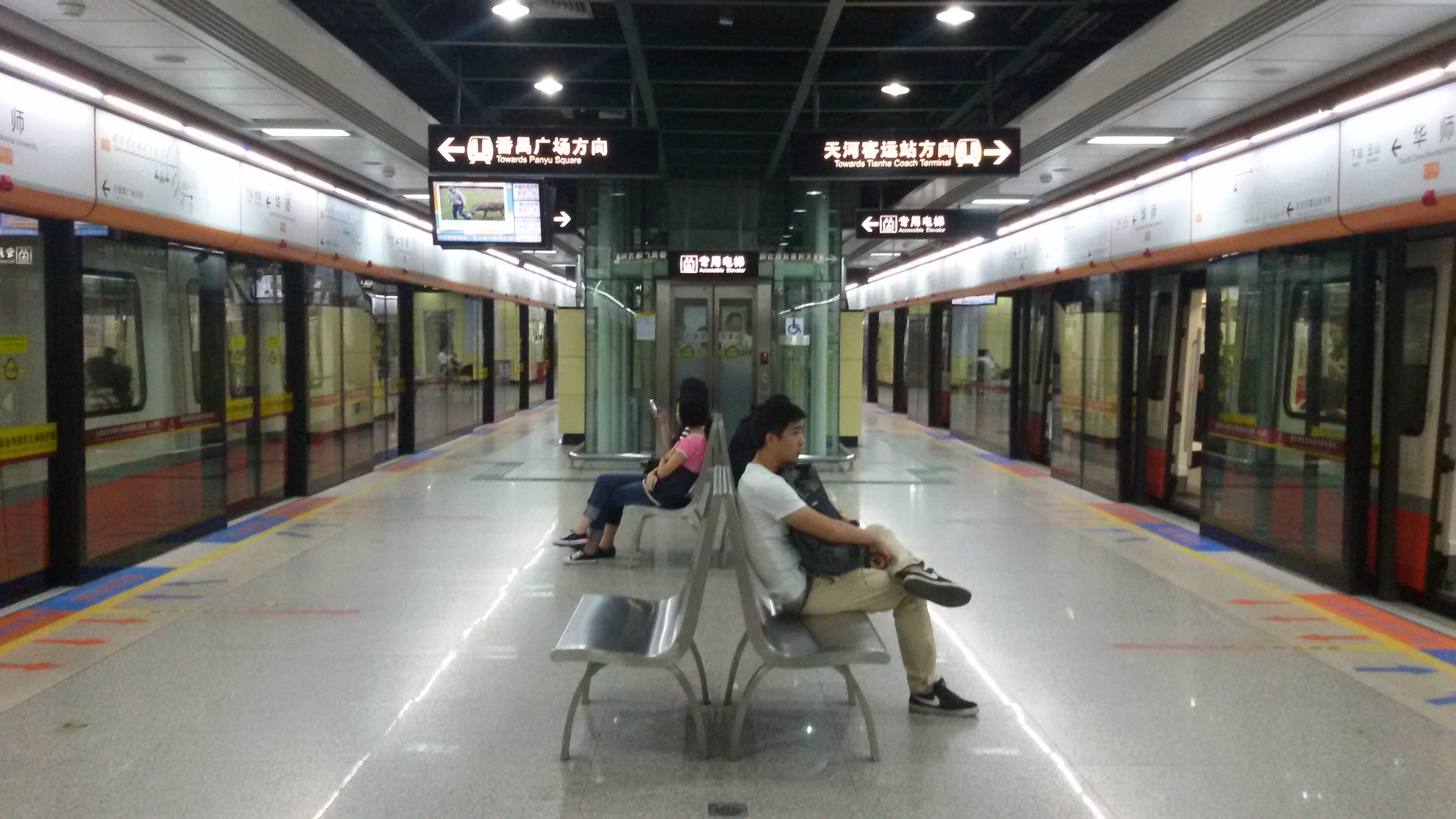 Station Platform for South China Normal University Station in Guangzhou Metro